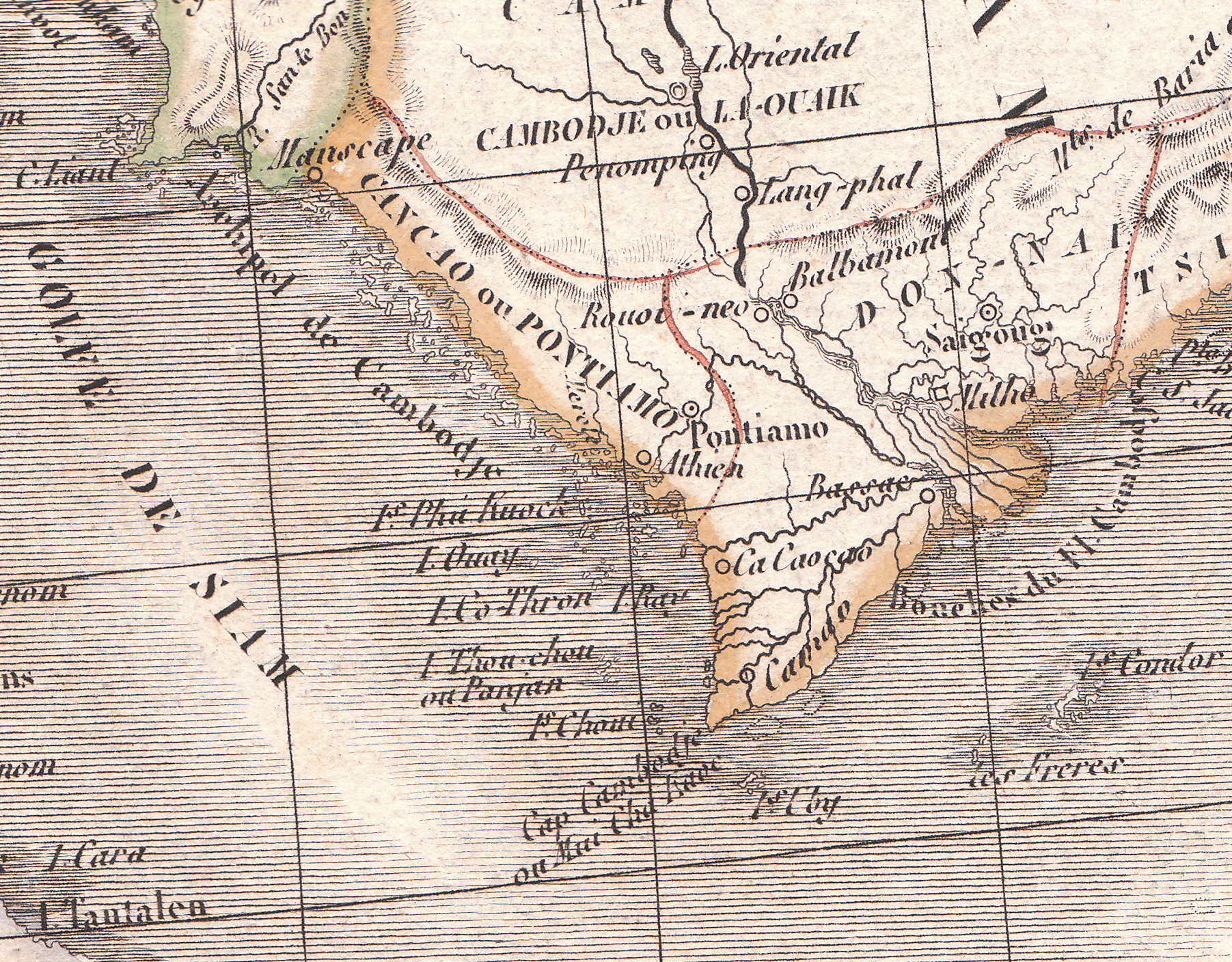 Plate 35E Carte de l’Inde endeca et audela du Gange from Pierre M. Lapie's Atlas Universel printed in 1829.